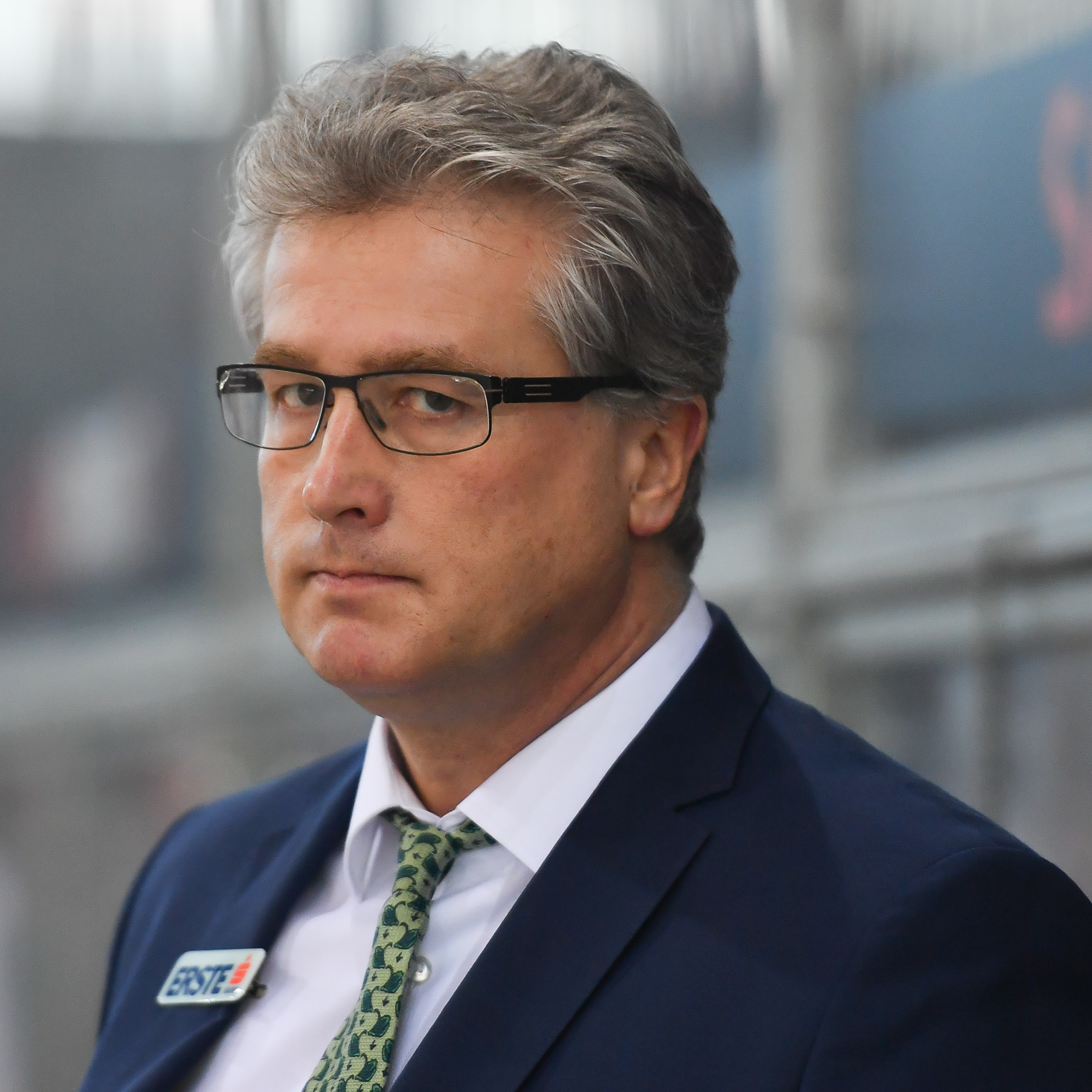 6/4/2017, Vienna, Austria, Sport, Ice Hockey, Friendly match Austria vs Sweden.